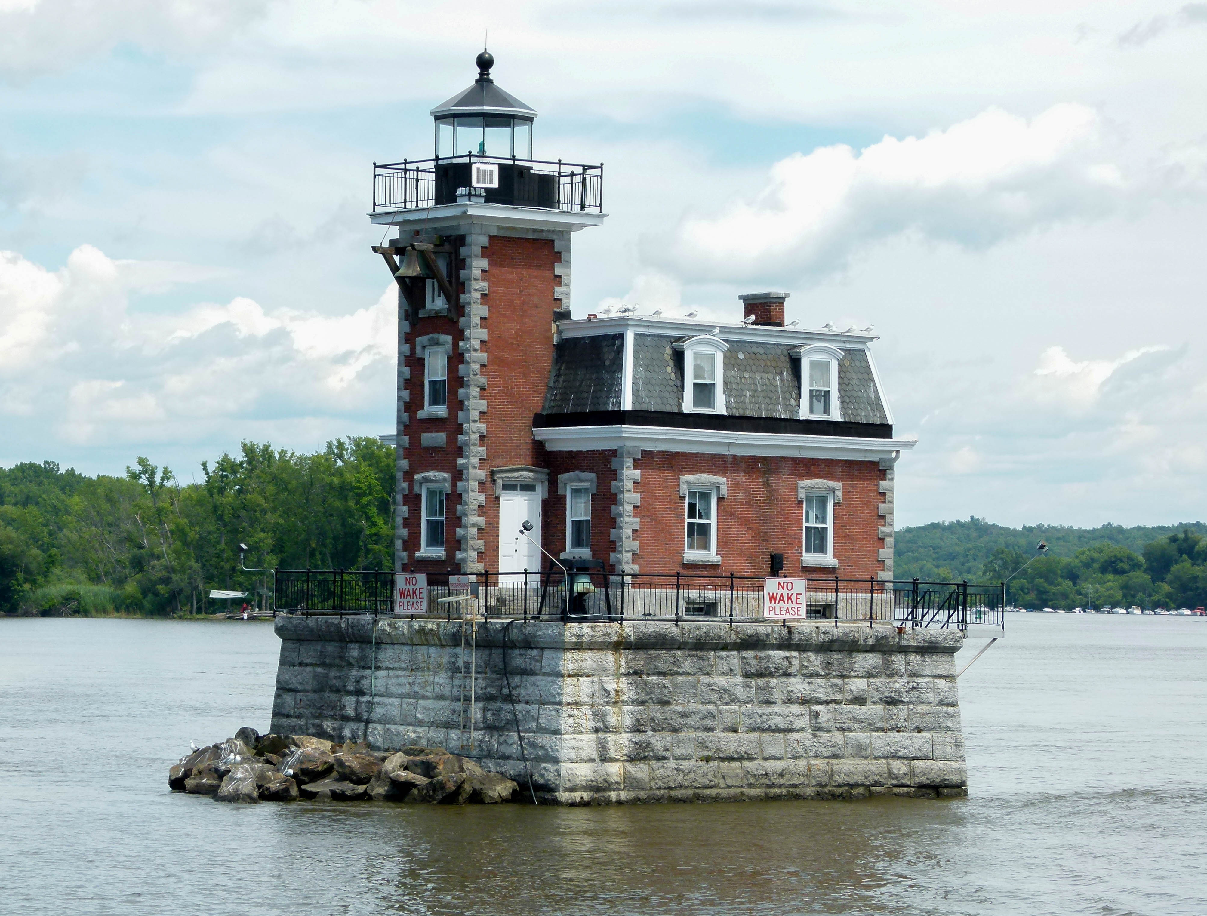 The Hudson–Athens lighthouse on the Hudson River, New York.